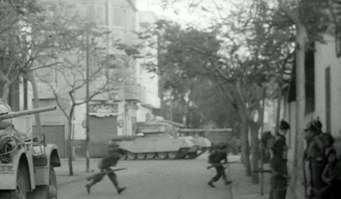 Ismailia police clash 1952